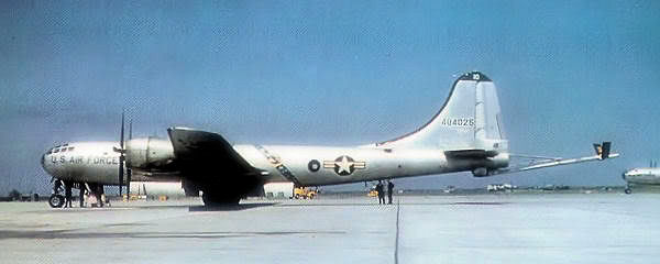 B-29 Superfotress tanker of the 27th Air Refueling Squadron, Bergstrom AFB, Texas